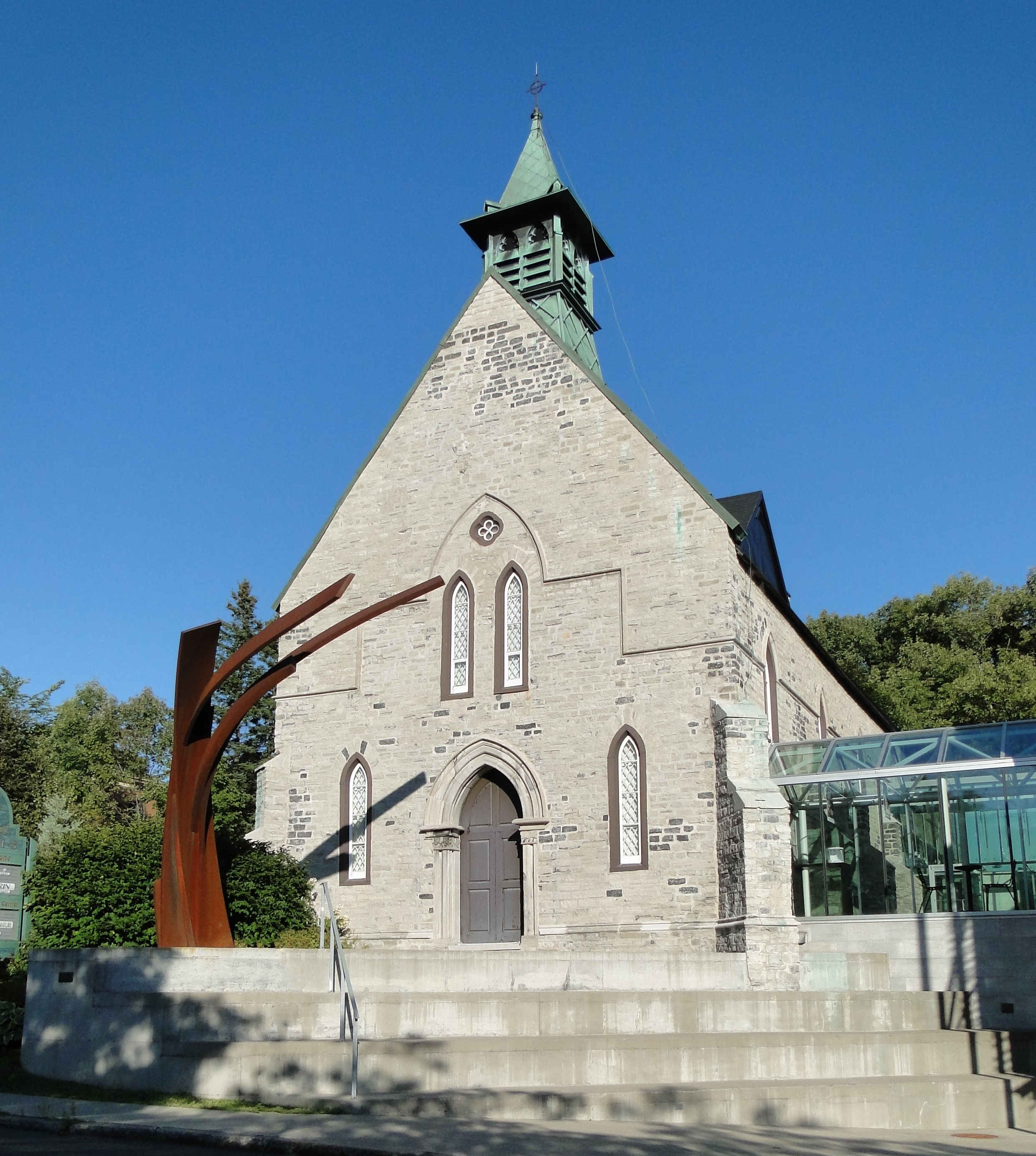 L'Anglicane (1848), also Holy Trinity Church, Lévis, province of Quebec, Canada